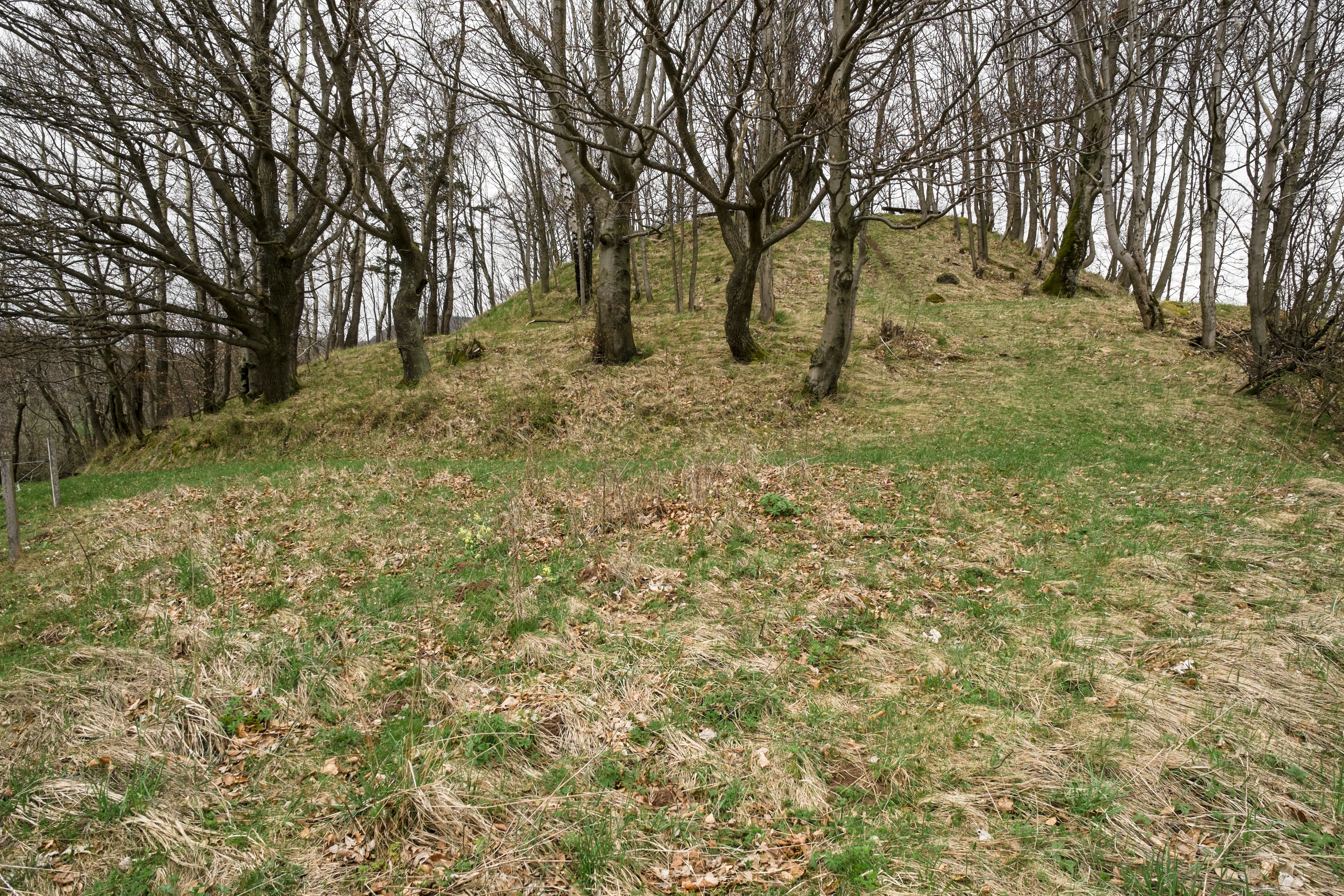 Remains of two demolished castles (Motte) in Bischofsheim-Oberweißenbrunn, county Rhön-Grabfeld, Bavaria, Germany